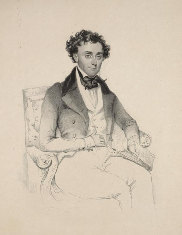 image of minstrel performer td rice